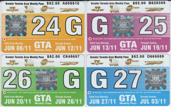 GTA Weekly Passes for the month of June 2011, issued in Toronto, Canada. These were issued at a manned kiosk, and had a two layer validation sticker affixed. The sticker's top layer must be removed before use; the bottom layer remains ("Do not remove"). Passes issued at automated kiosks have no stickers.